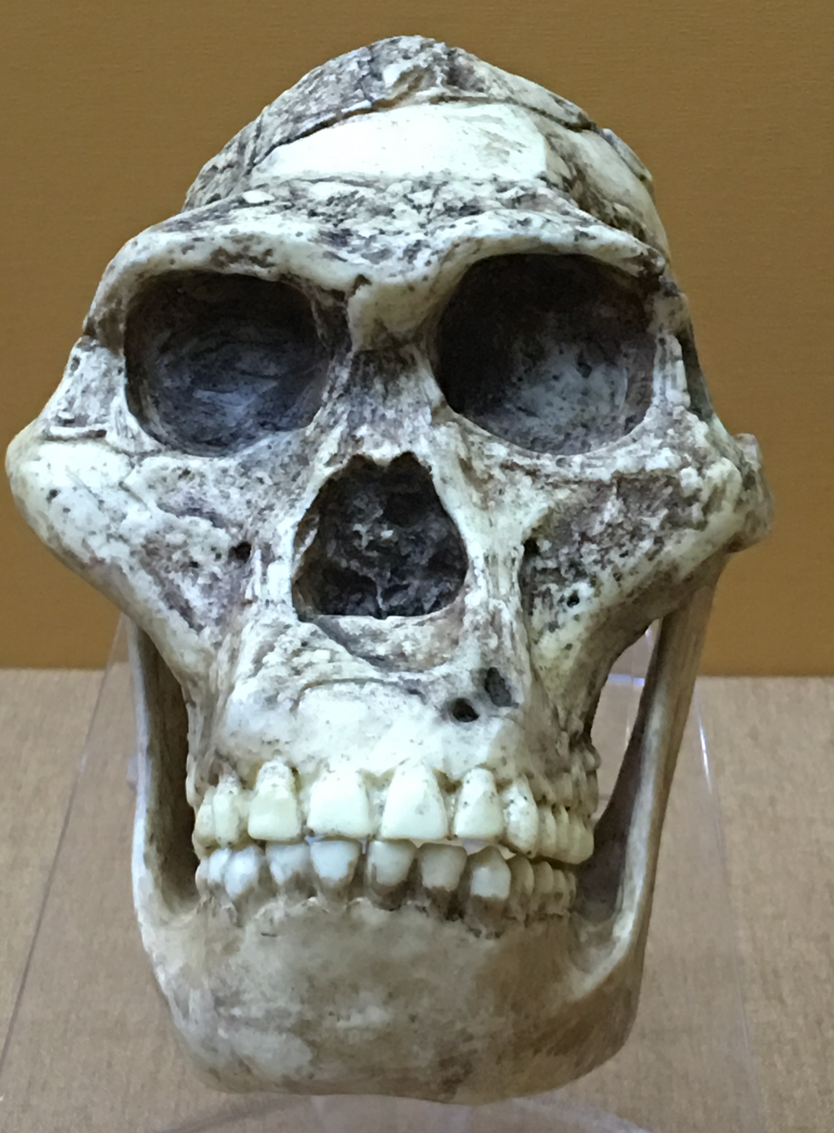 Hominid fossil reconstruction in the Beijing Museum of Natural History - China, July 2017.